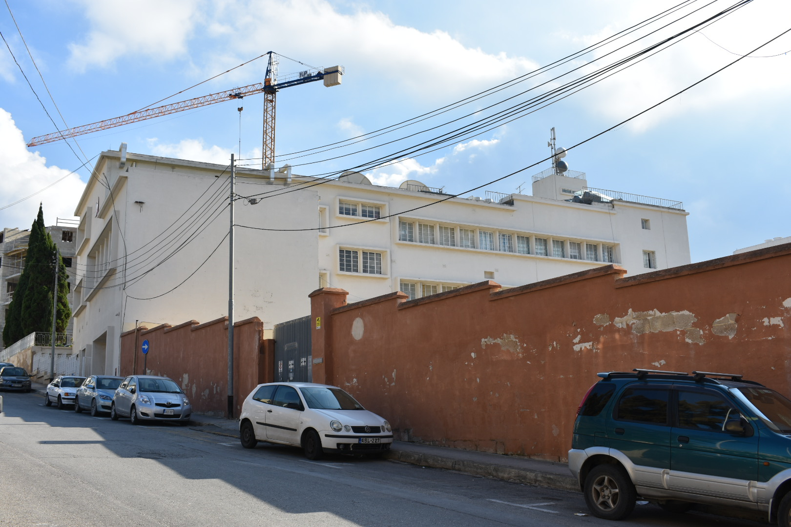 Pietà Malta Buildings